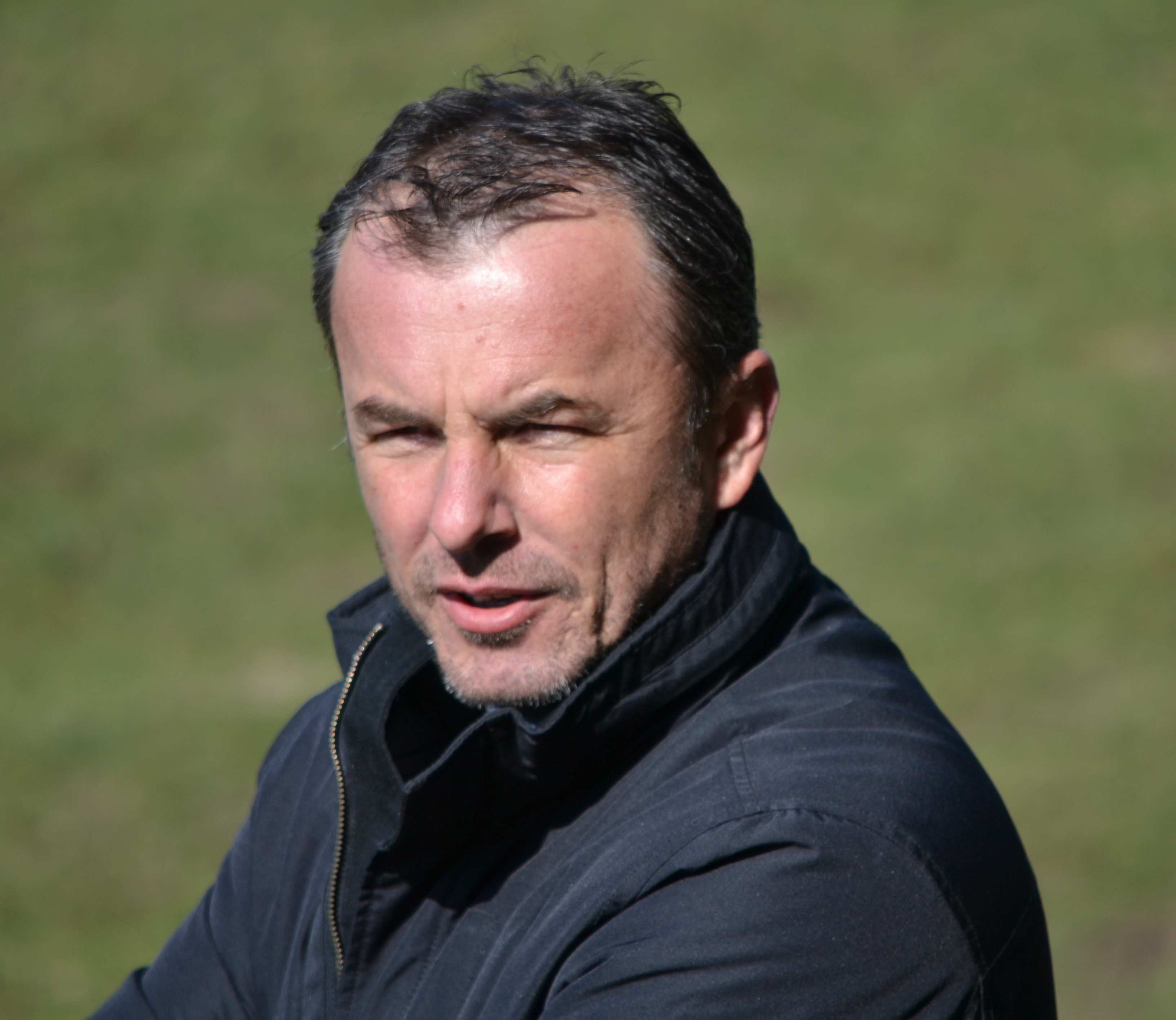 Zdenko Frťala, Czech football player and coach